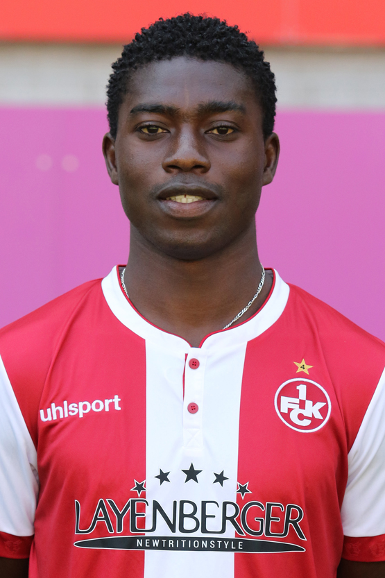 Dylan Esmel (Nr. 14)